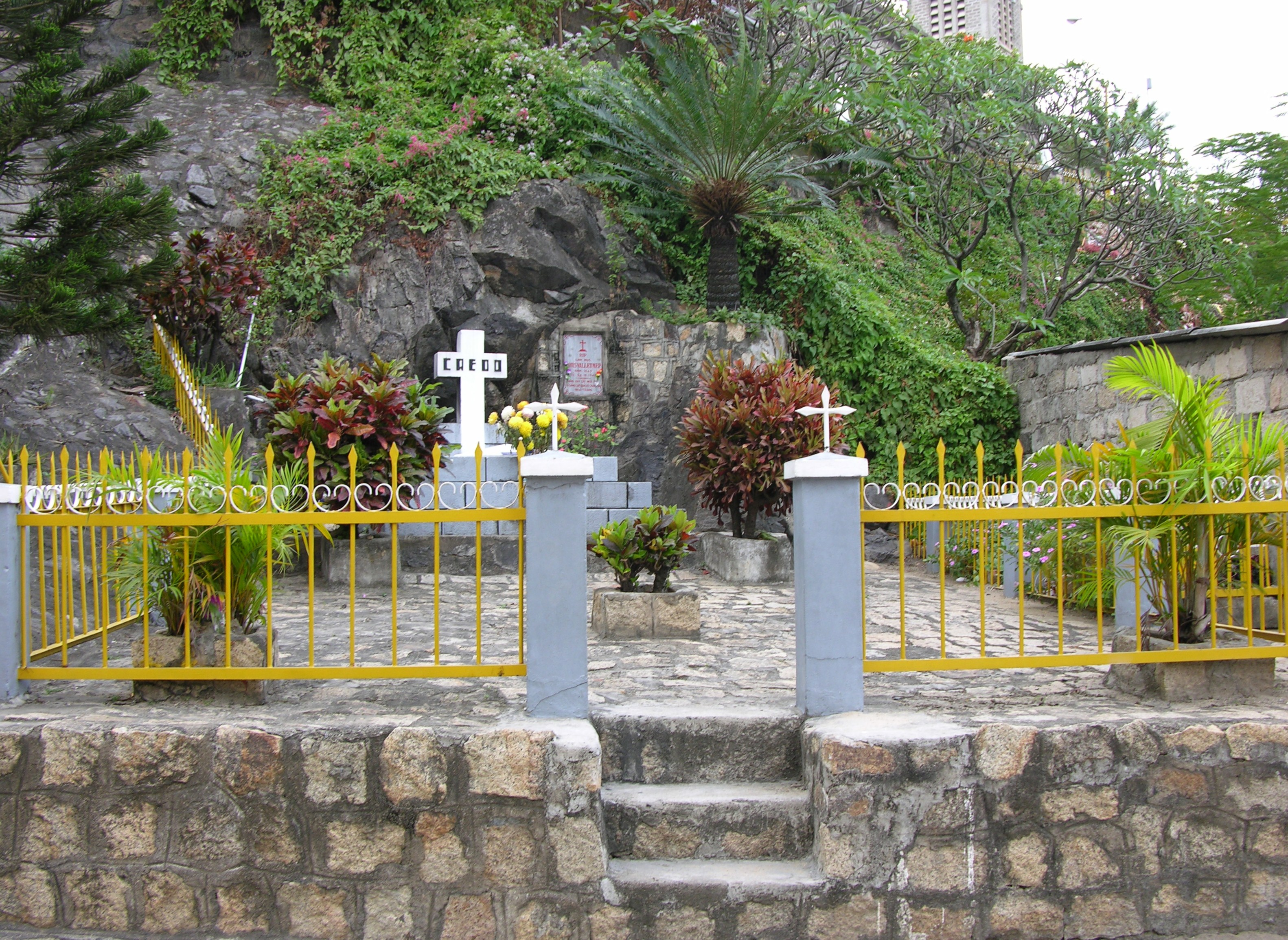 Tomb of Father Louis Vallet under Nha Trang Cathedral